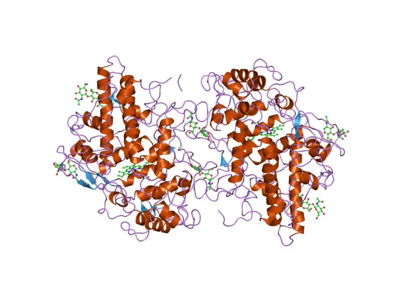 Cartoon representation of the molecular structure of protein registered with 1myp code.